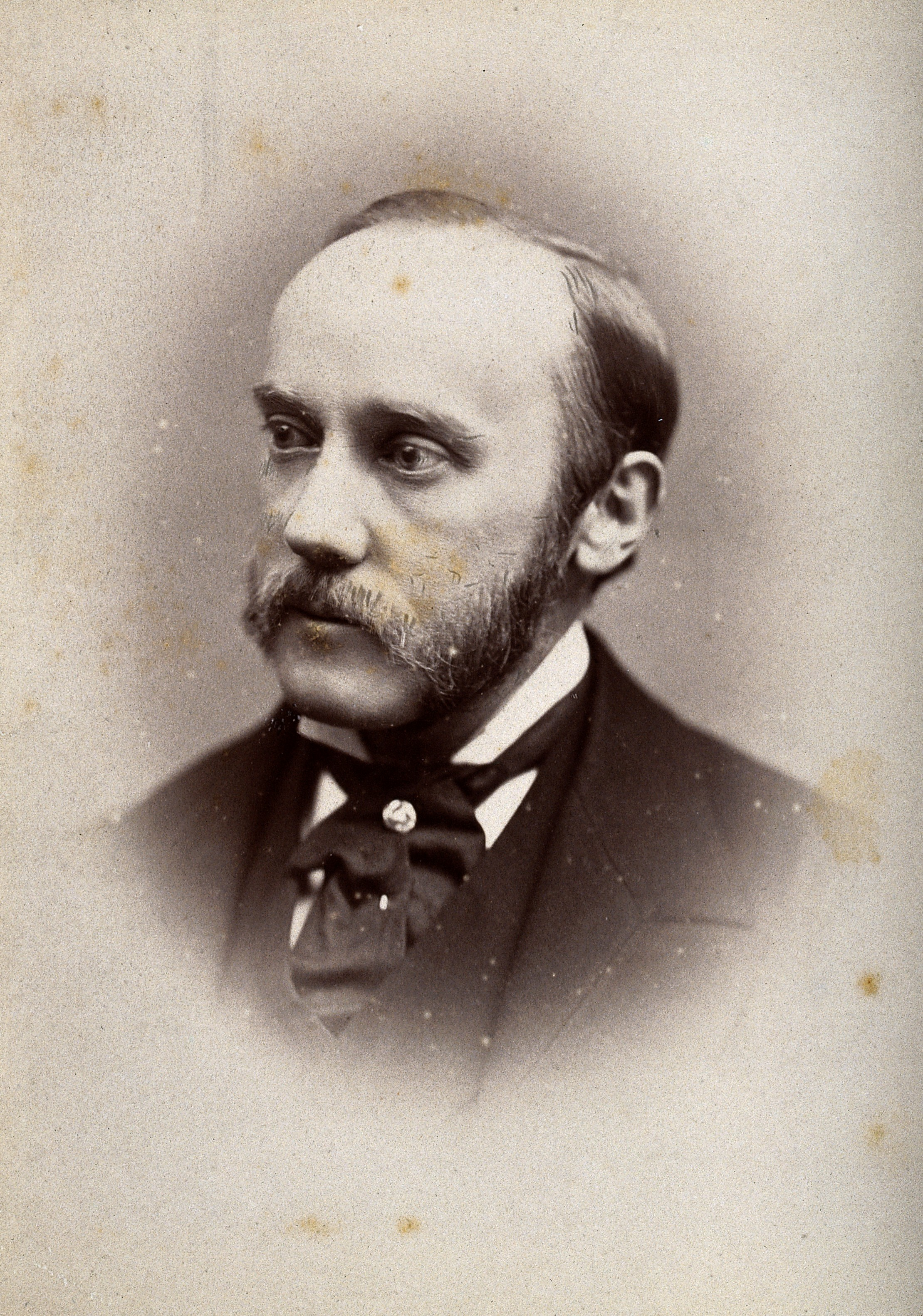 Samuel Jones Gee. Photograph by G. Jerrard, 1881. Iconographic Collections Keywords: Samuel Jones Gee; portrait photographs; G. Jerrard